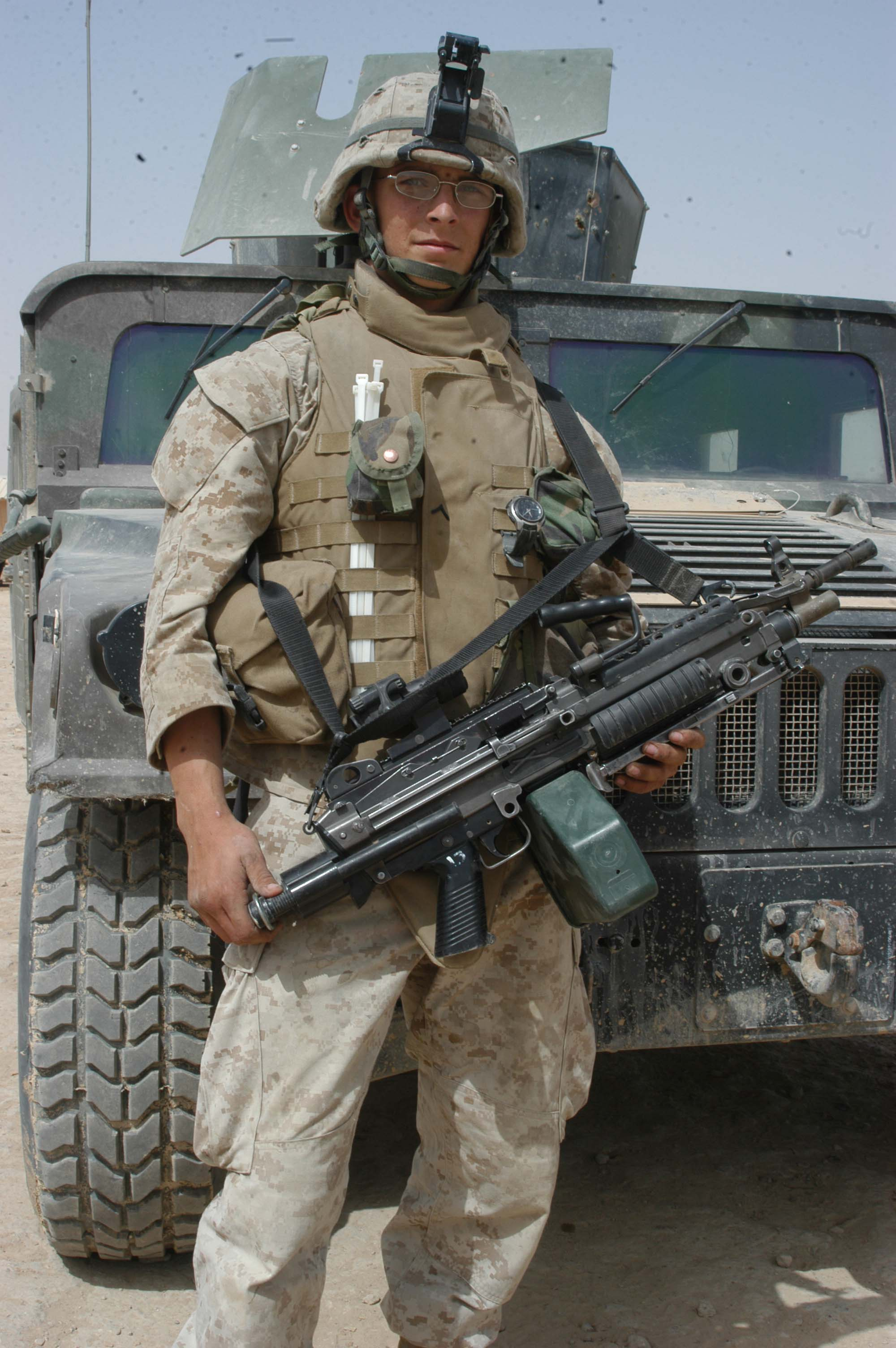 CAMP RAMADI, Ar Ramadi, Iraq (April 23, 2005) - Private First Class Bryan J. Nagel, a squad automatic weapon gunner with 2nd Squad, 2nd Platoon, Company B, 1st Battalion, 5th Marine Regiment, is responsible for saving the lives of his fellow Marines during an organized attack insurgents launched on a observation post in the city here April 20. The 20-year-old from Jamestown, N.D., engaged the driver of a suicide vehicle born improvised explosive device from his observation post with his weapon placing well-aimed rounds in the vehicles windshield. The 2003 Jamestown High School graduate destroyed the rolling bomb and prevented the martyr from reaching the Marines' position. Photo by Cpl. Tom Sloan